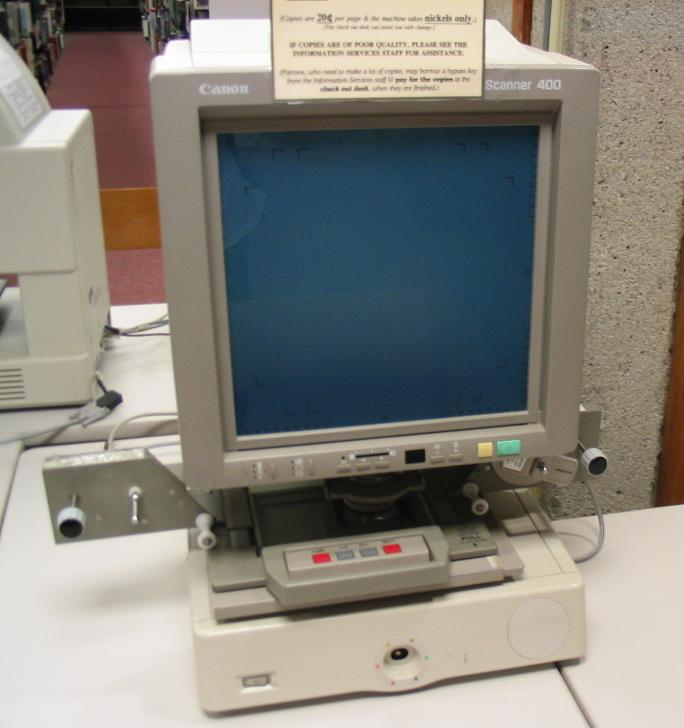 Microfiche machine